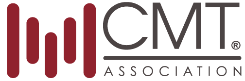 CMT Association's logo